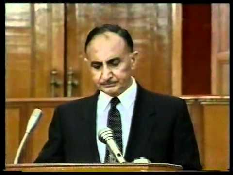 Press Speach